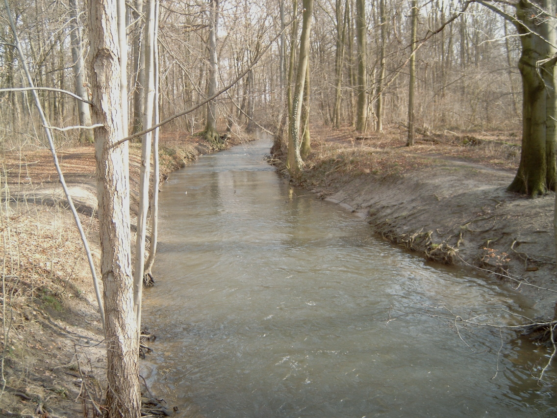 Ihme near by the south border of Hanover (Germany)